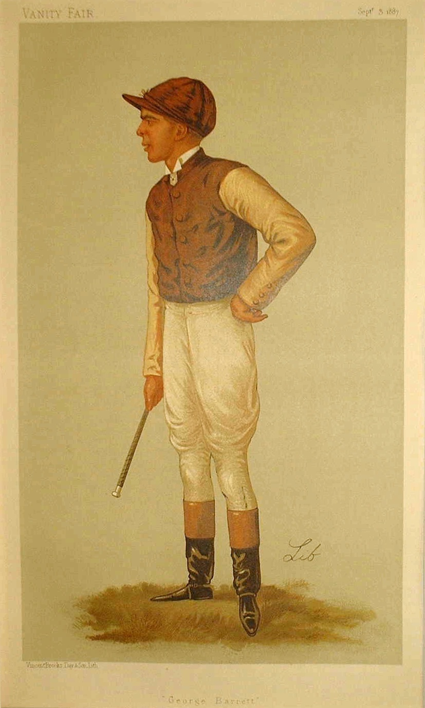 Caricature of George Barrett (1863-1898). Biography